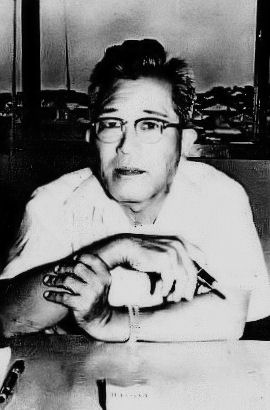 Katsu Hoshi